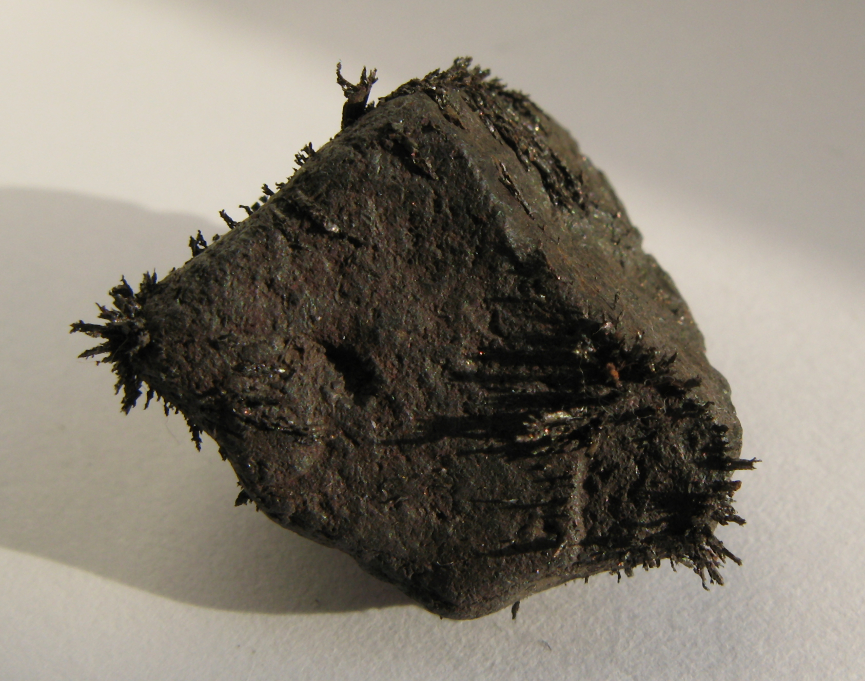 Magnetite with iron shavings